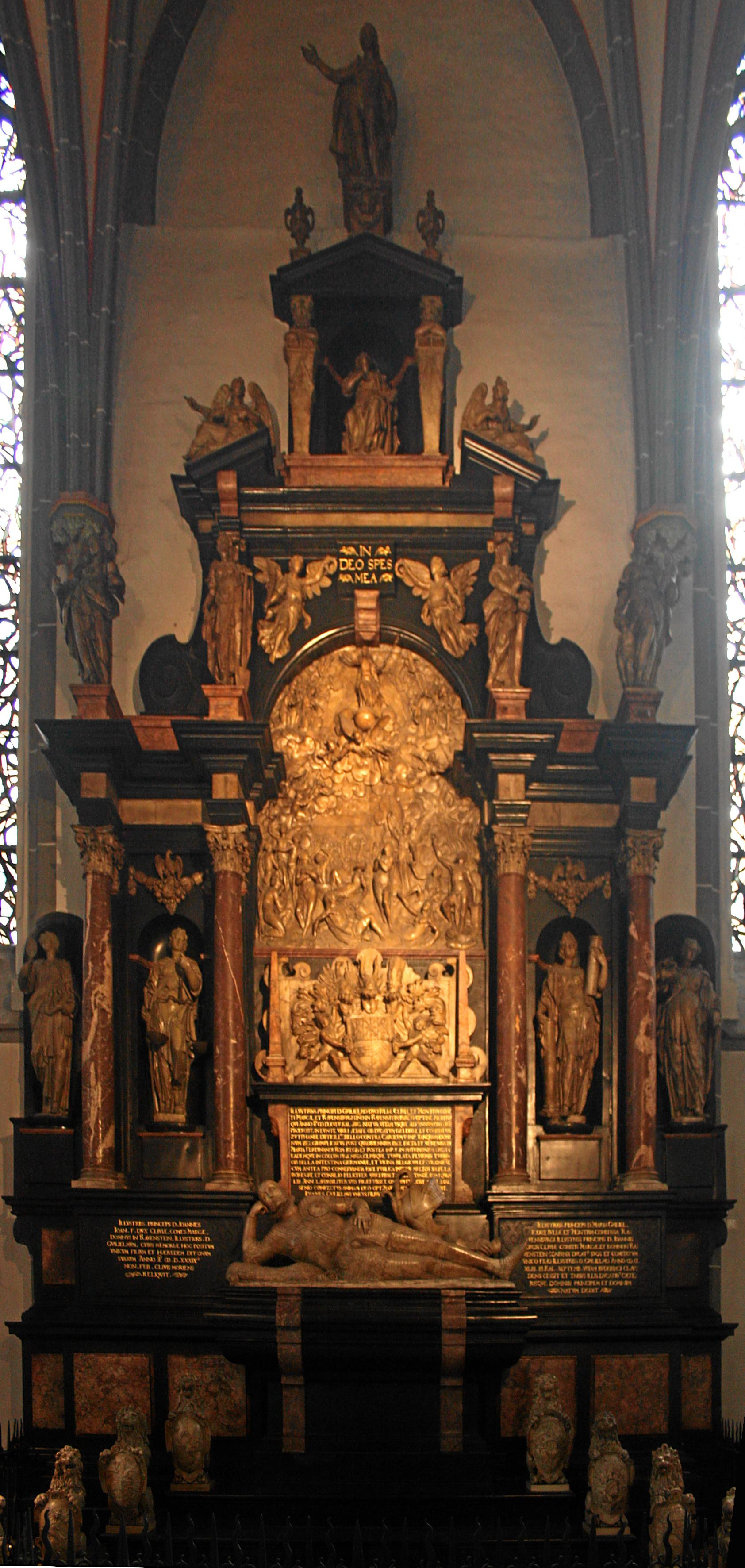 Düsseldorf, Germany. Catholic church St. Lambertus: tomb of Wilhelm V., duke of Jülich-Cleves-Berg.